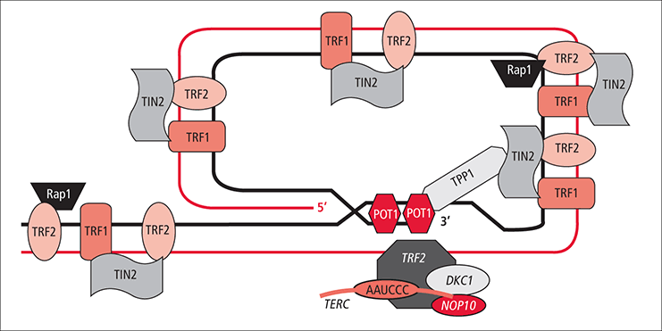 Schematics of the arrangement of proteins in the telosome/shelterin complex.